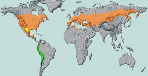 Kartoffelkäfer, Colorado potato beetle, Verbreitung, distribution